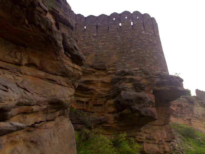 this is a part of Khandar Fort.You can read about this fort on wikipedia.